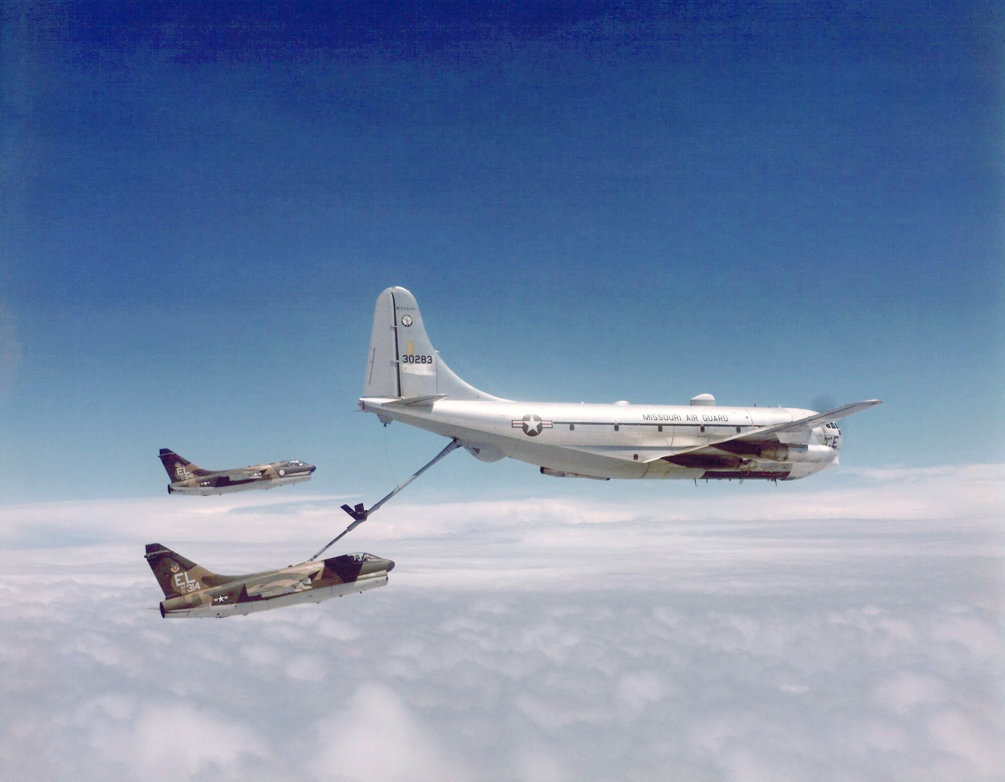 A Missouri Air National Guard Boeing KC-97L Stratofreighter of the 180th Air Refueling Squadron, 139th Air Refueling Group, refueling two U.S. Air Force Vought A-7D Corsair IIs of the 23rd Tactical Fighter Wing, based at England Air Force Base, Louisiana (USA). The 23rd TFW flew the A-7D from 1972 to 1981, the 139th ARG retired its KC-97Ls in 1976. The Stratofreighter 53-0283 (Boeing c/n 17065) was loaned to Japan on 4 May 1965. It was returned to the USAF on 23 April 1970 and converted to a KC-97L. Later it was put on display at NAS JRB Forth Worth (Texas). Bought by a private party in December 2001, it was trucked to Colorado Springs (Colorado) and used for a restaurant.